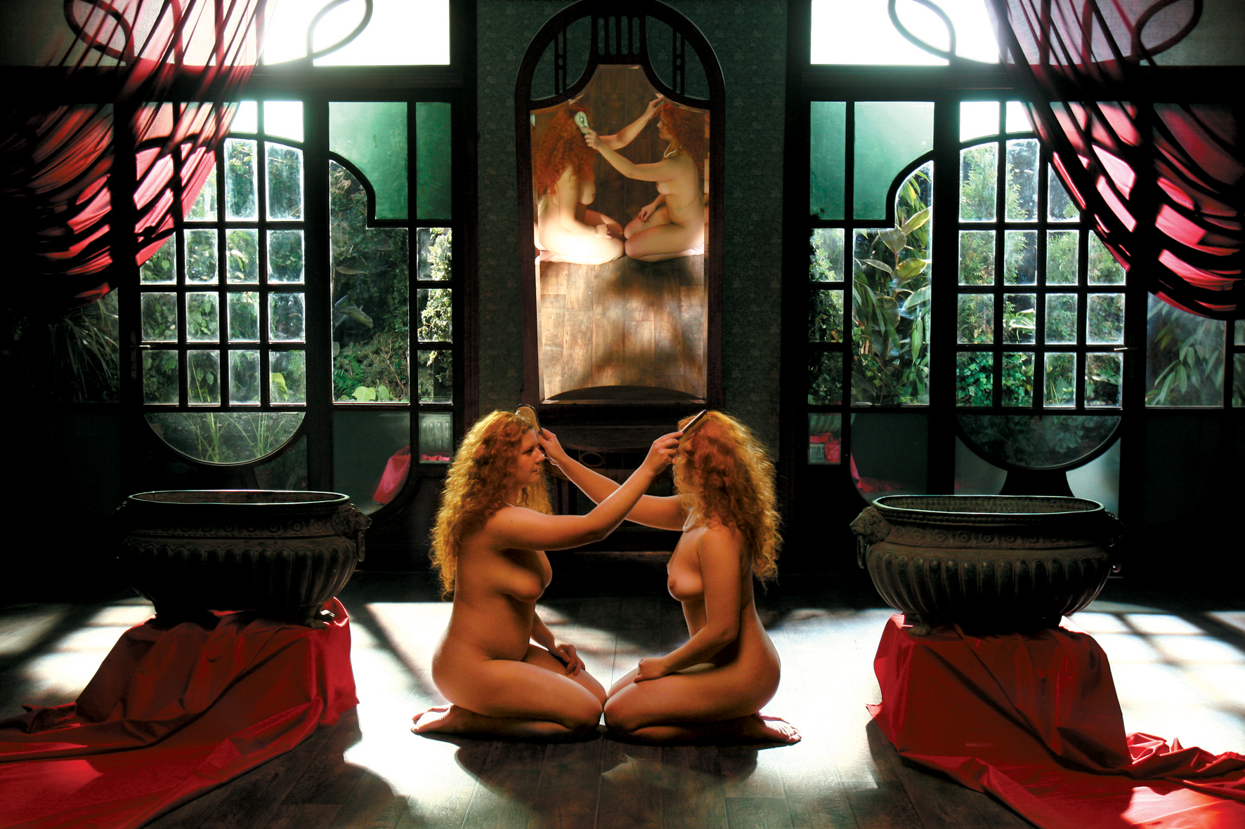 Still from Las Meninas(film) Author - Ihor Podolchak Source - Ihor Podolchak